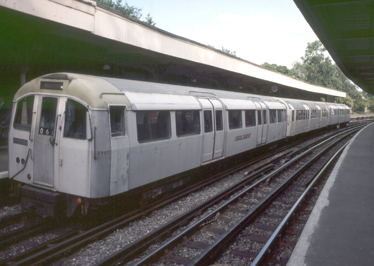 1960 stock tube train (with a single 1938 trailer) calls at Grange Hill station. The two Driving Motors are in their original unpainted silver livery and the 1938 trailer has been painted white to match.